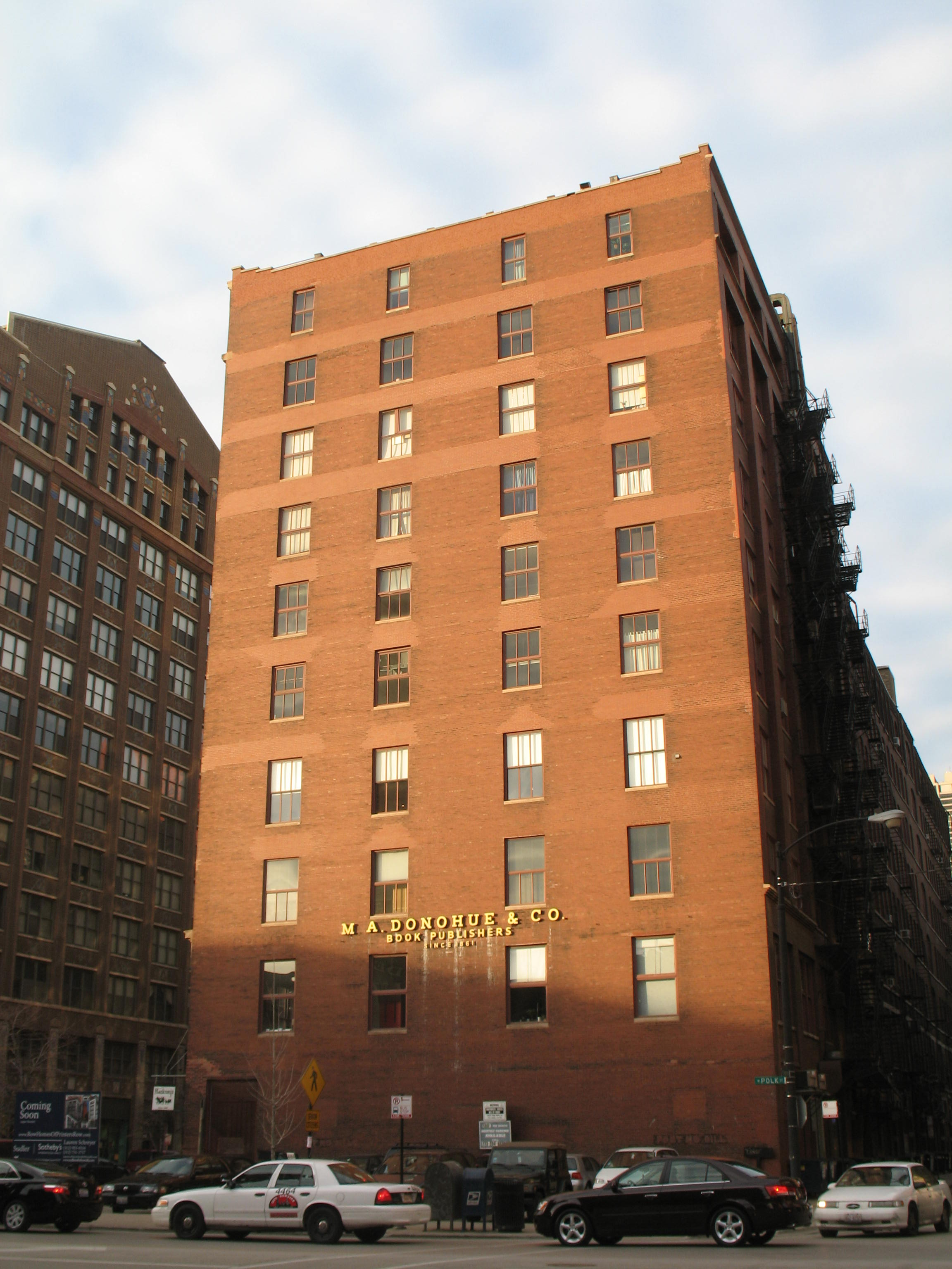 Donahue Building in Printer's Row